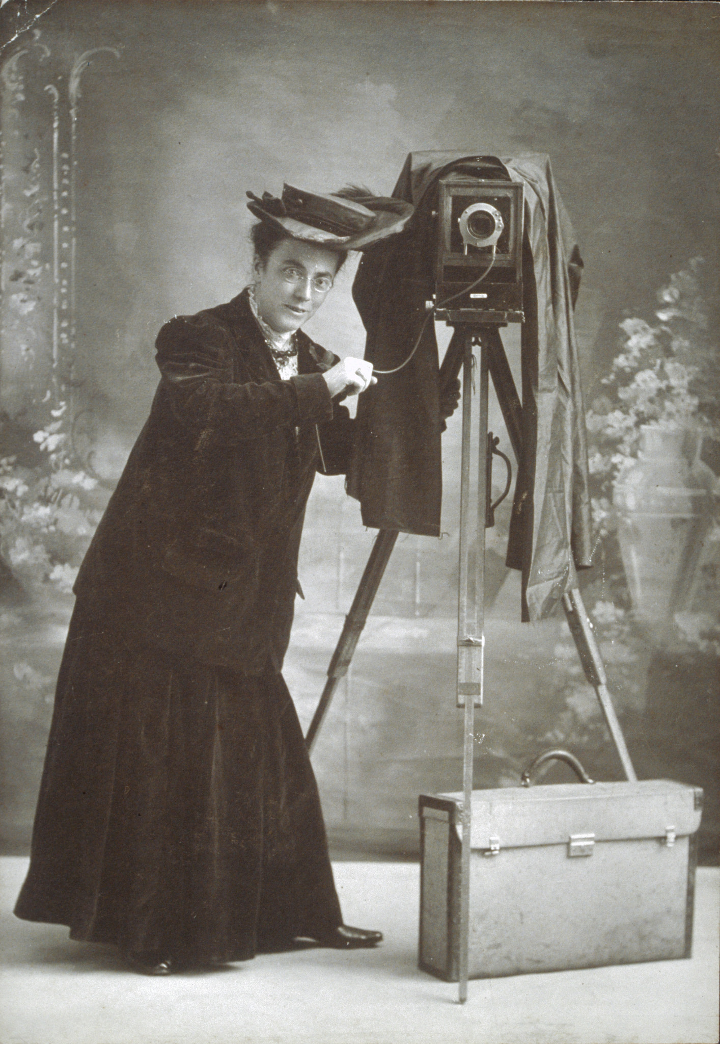 Photographer Jessie Tarbox Beals standing next to her camera (on tripod), with camera trigger in hand. PC60-6-3. Jessie Tarbox Beals Photographs, Schlesinger Library, Radcliffe Institute, Harvard University.